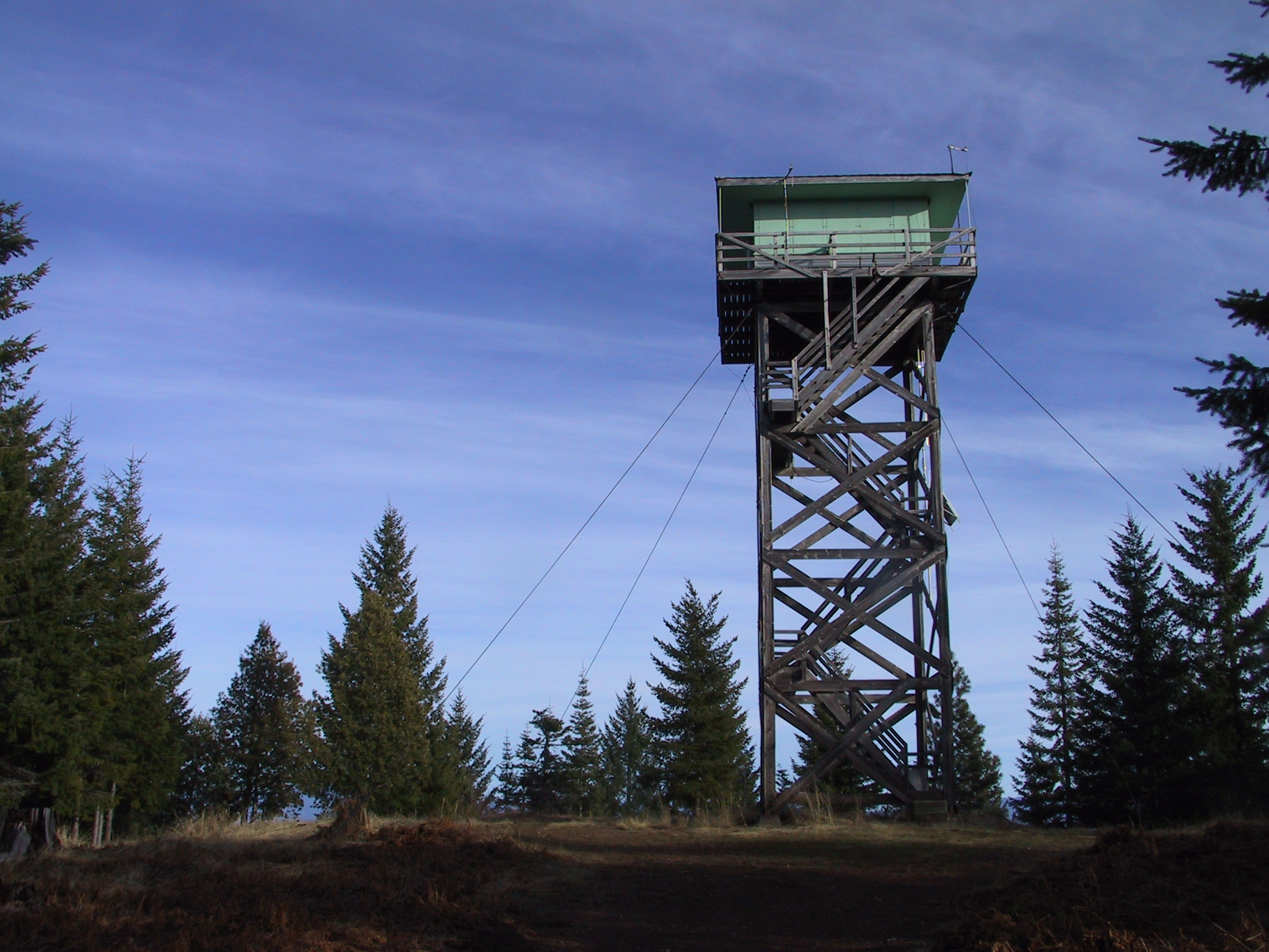 Photo by Seth Crawford, December 2005